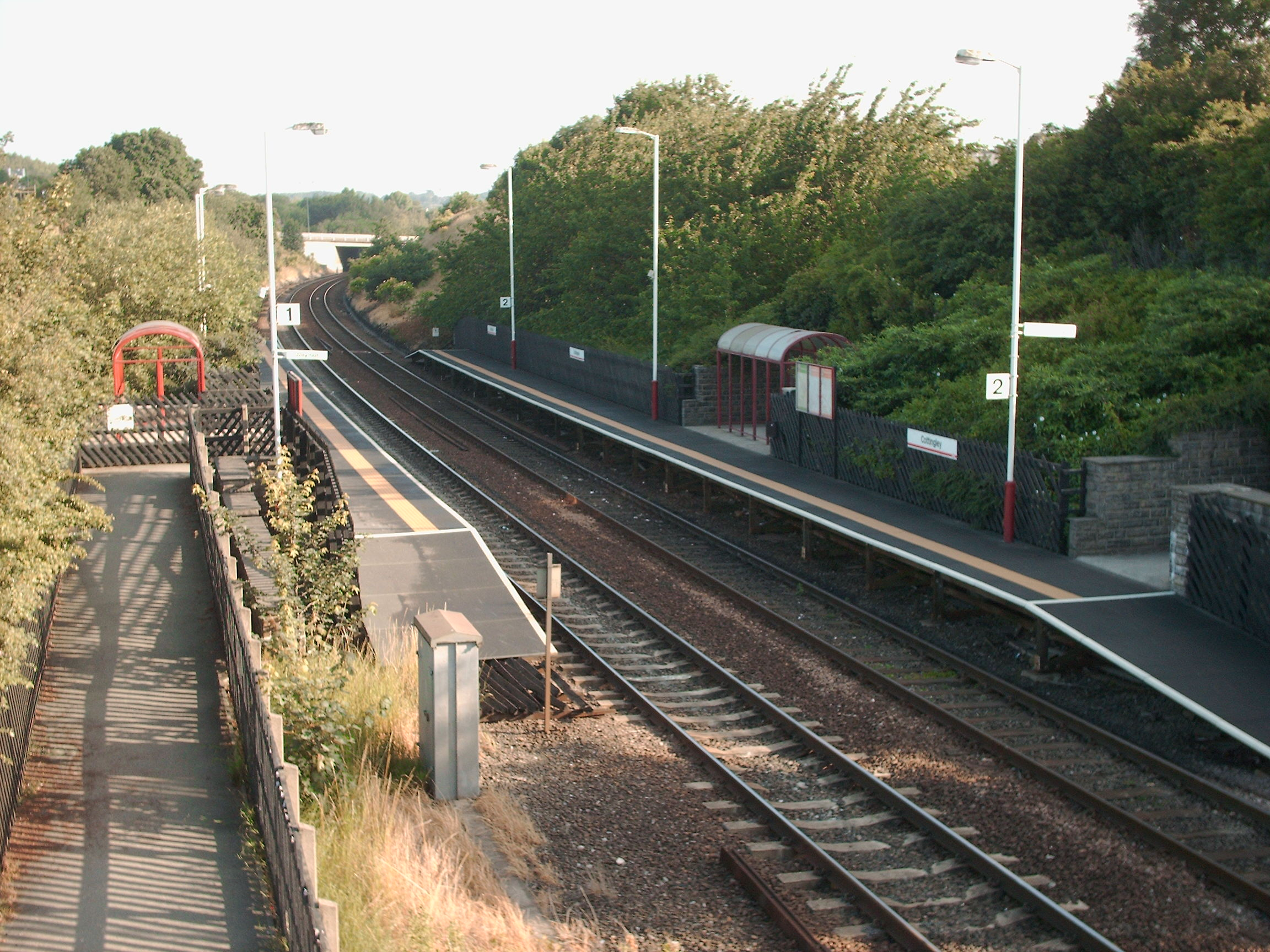 Cottingley station, West Yorkshire. The view from the footbridge.